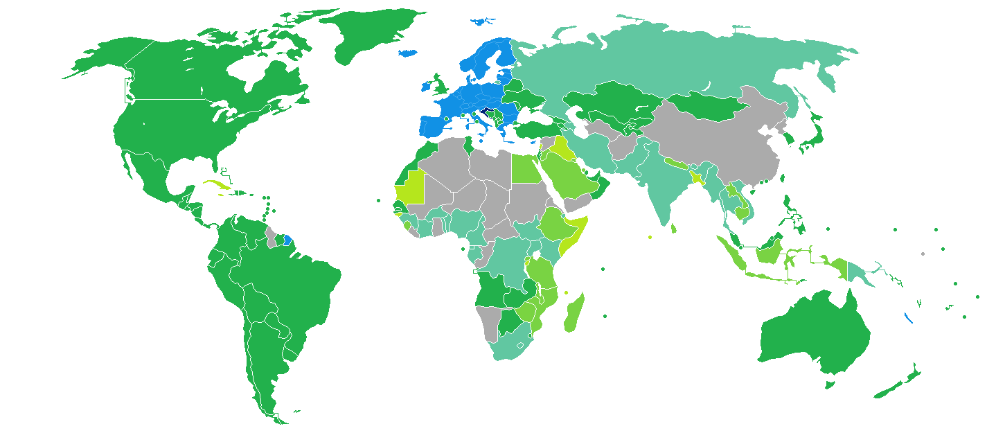 Visa requirements for Croatian citizens Croatia Full freedom of movement Partial freedom of movement Visa not required Visa on arrival eVisa Visa available both on arrival or online Visa required prior to arrival